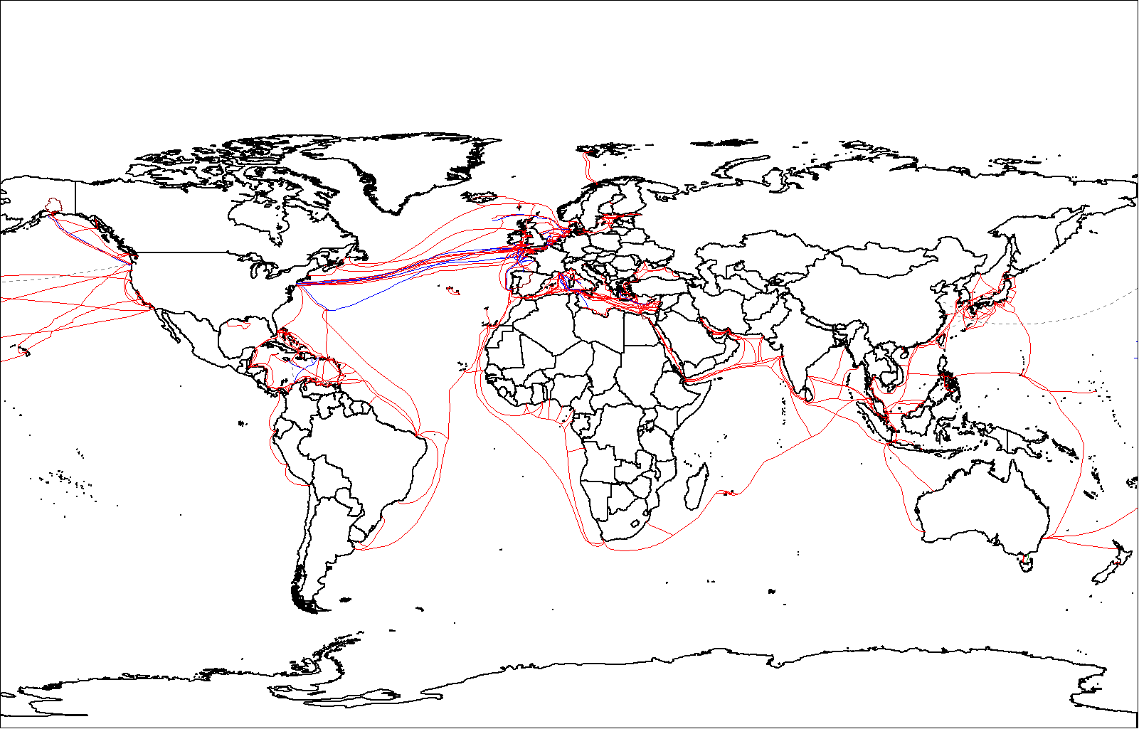 Map showing submarine telecommunication cables around the world in 2007. (See this map, for later cables).